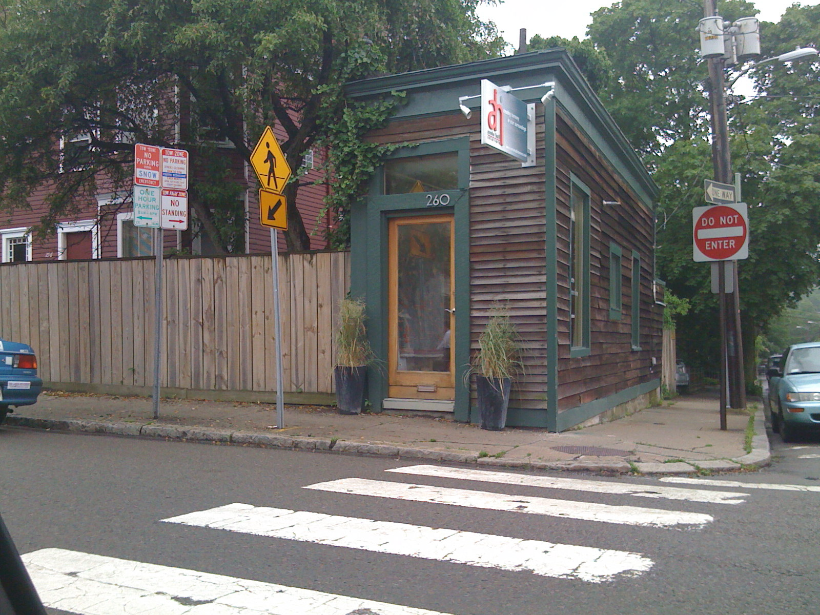 Spite house at 260 Concord Ave, Cambridge, MA, USA